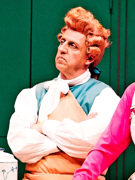 Søren Hauch-Fausbøll in the Copenhagen theater Folketeatret's production of the play "Den politiske kandestøber" by Ludvig Holberg.